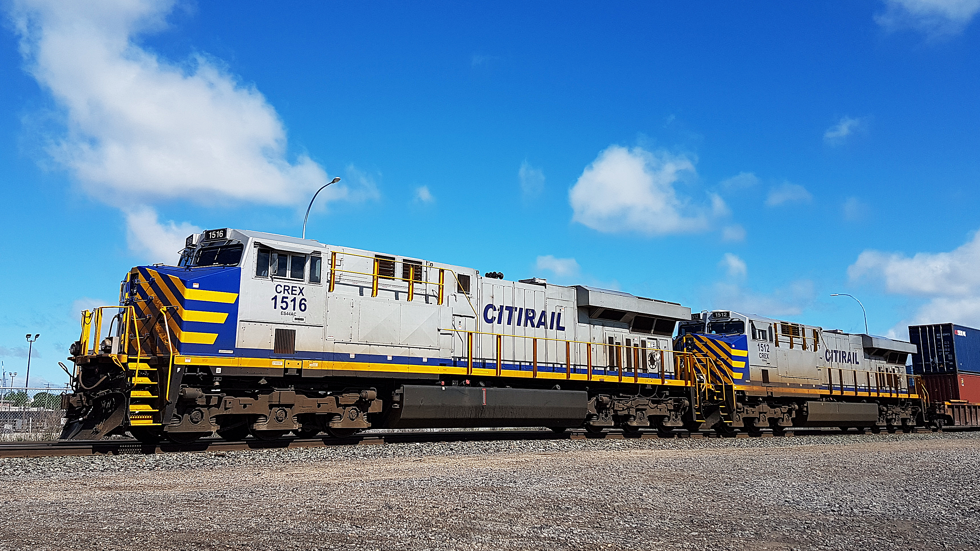 Citirail locomotives pulling a CN intermodal train west out of Winnipeg on June 3rd 2018.